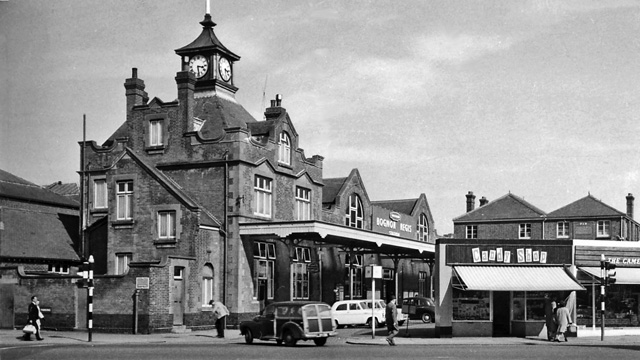 Bognor Regis Station, entrance. View NE to main entrance of terminus of branch from Barnham, (Brighton and London).